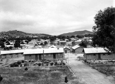 Block 4 of the Bonegilla Migrant Reception and Training Centre in 1954. This block saw an mutiny/protest by a group of Italians.